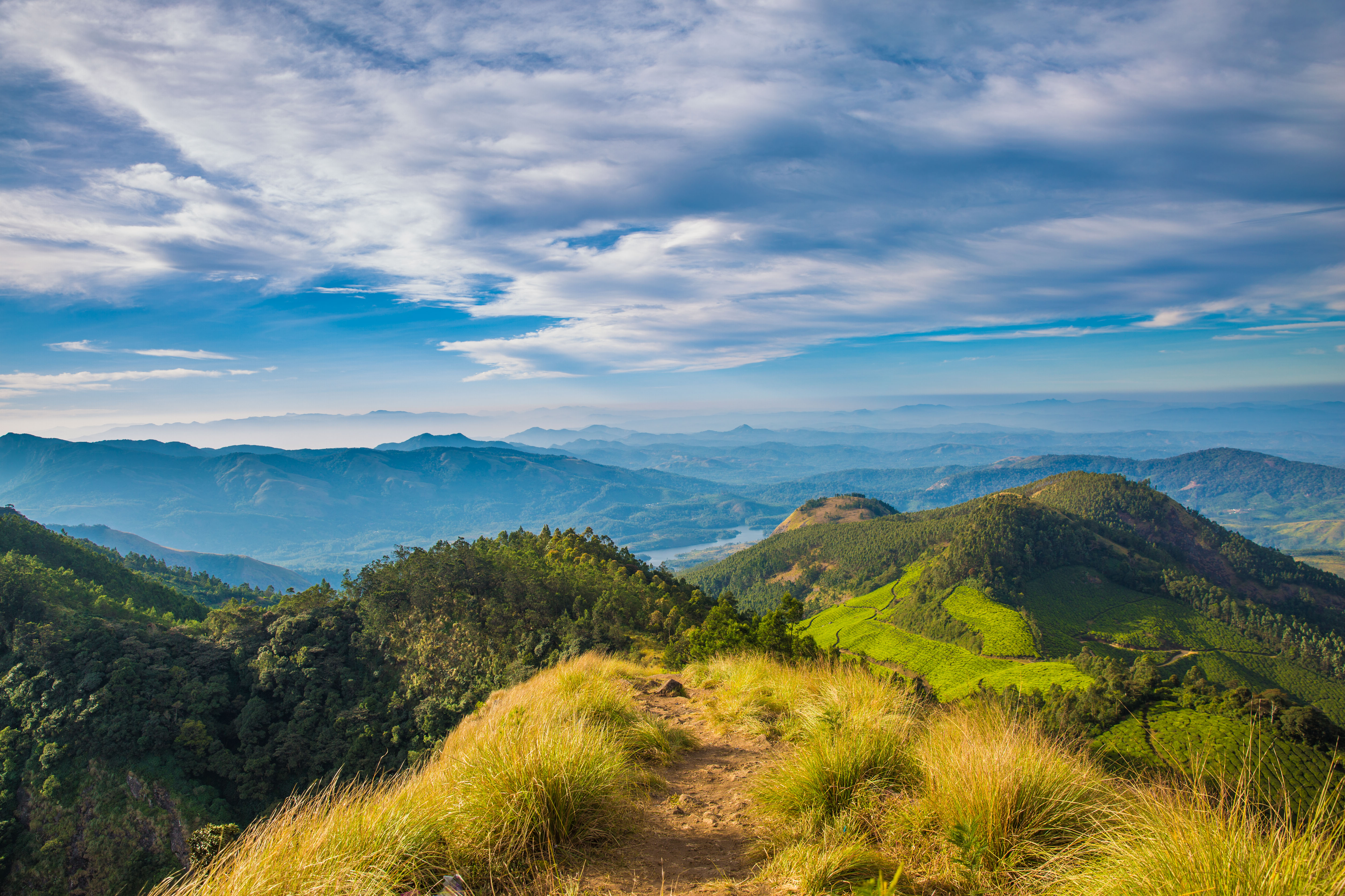 The View of Suryanelli from the Kolukkumalai Peak